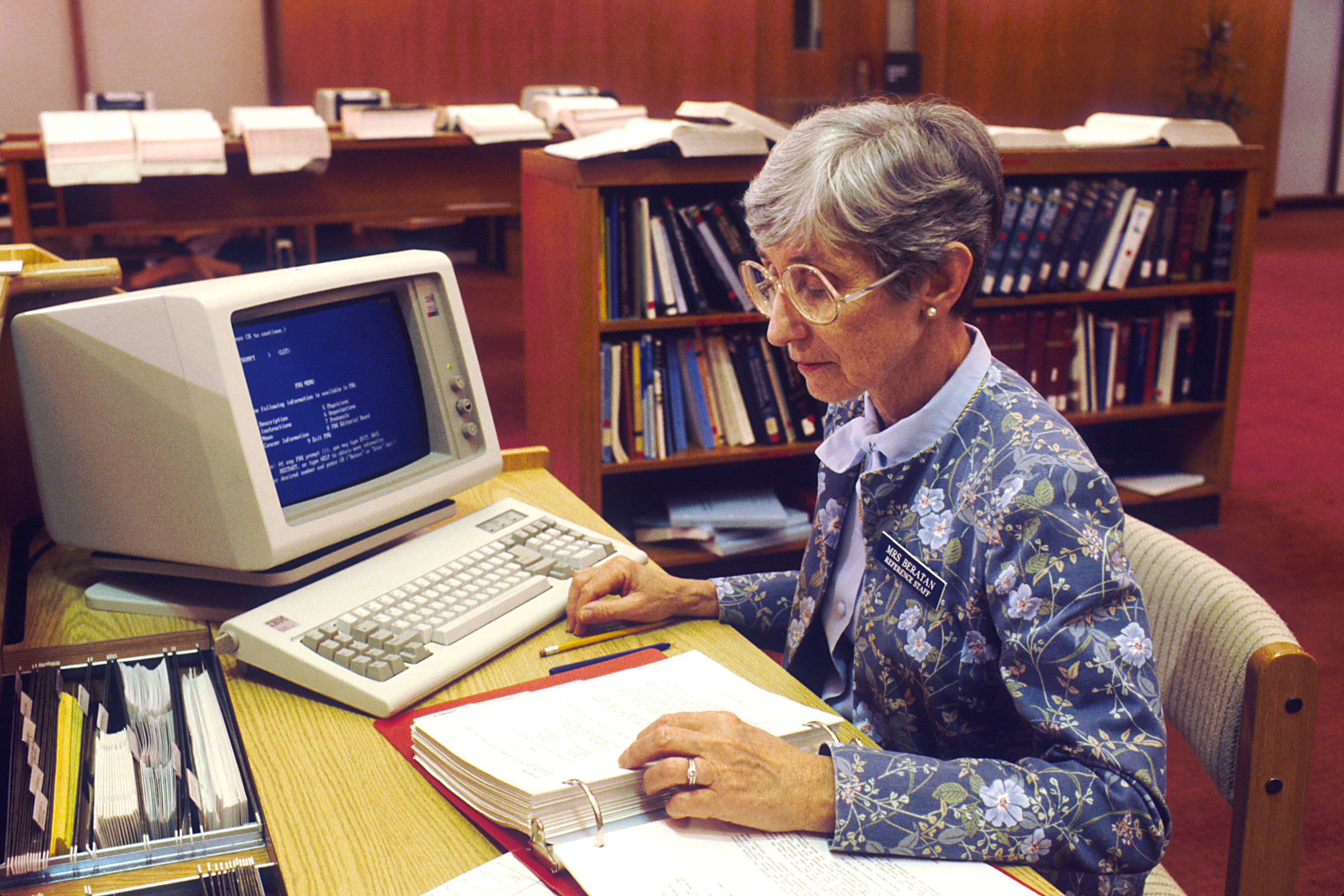 Title Librarian Accessing PDQ Description A librarian at the National Library of Medicine (NLM) is using an IBM computer to access PDQ. The Physicians Data Query was designed by the National Cancer Institute to help physicians obtain information about the most up-to-date protocols, physicians, and clinics treating cancer patients. Topics/Categories People -- Health Professional Type Color, Photo Source National Cancer Institute